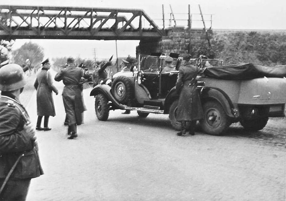 Mercedes-Benz W 31, Sep. 1939 in Poland, Adolf Hitler being located behind the hood, receive the message of an officer